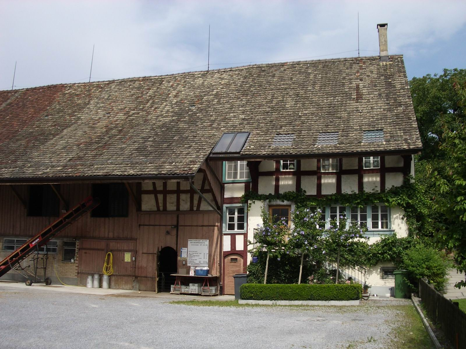 Affoltern, Zurich, Switzerland